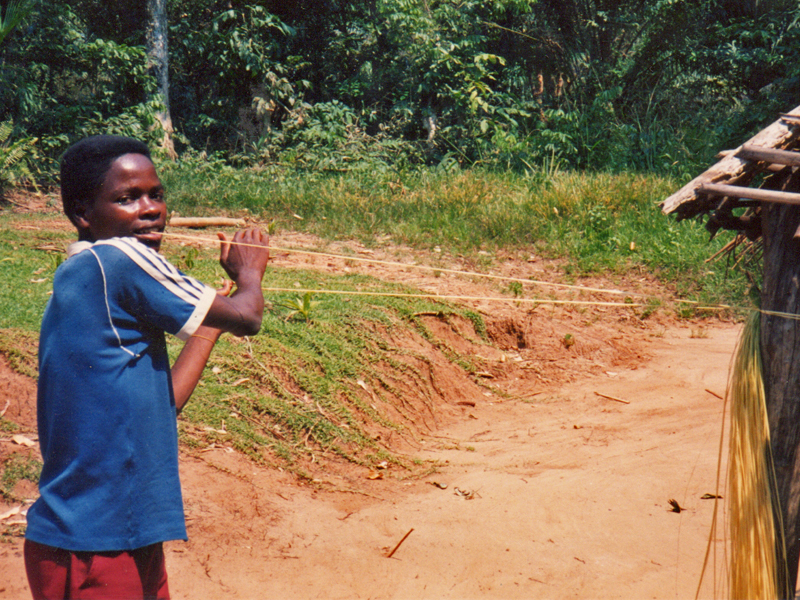 Step 2 - Once peeled from the rafia palm frond the fibers are rolled together for increased strength.